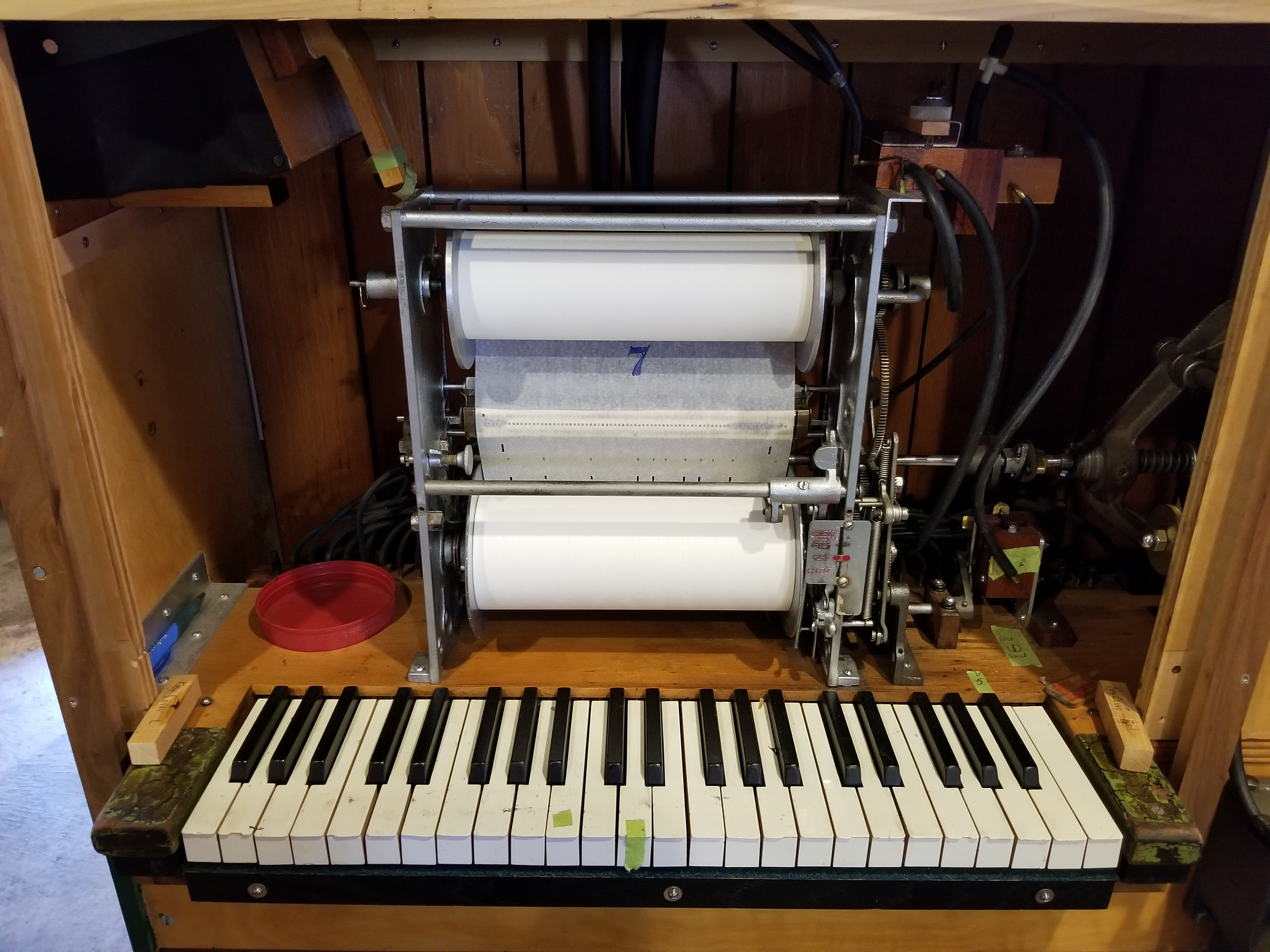 A Wurlitzer Caliola roll ready to be played. This Caliola is located at the Herschell Carrousel Factory Museum.